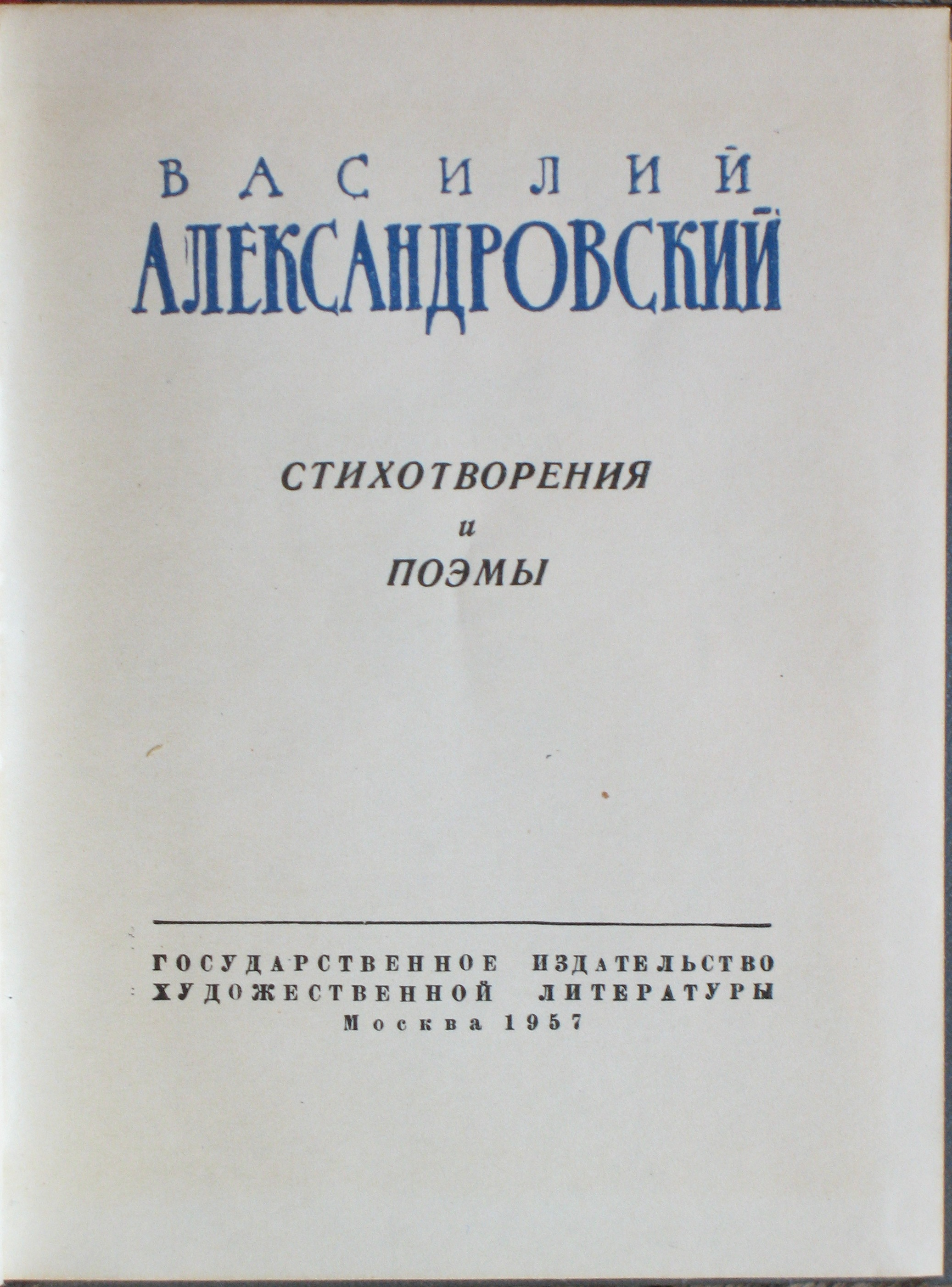 Soviet poet Vasily Alexandrovsky title page.